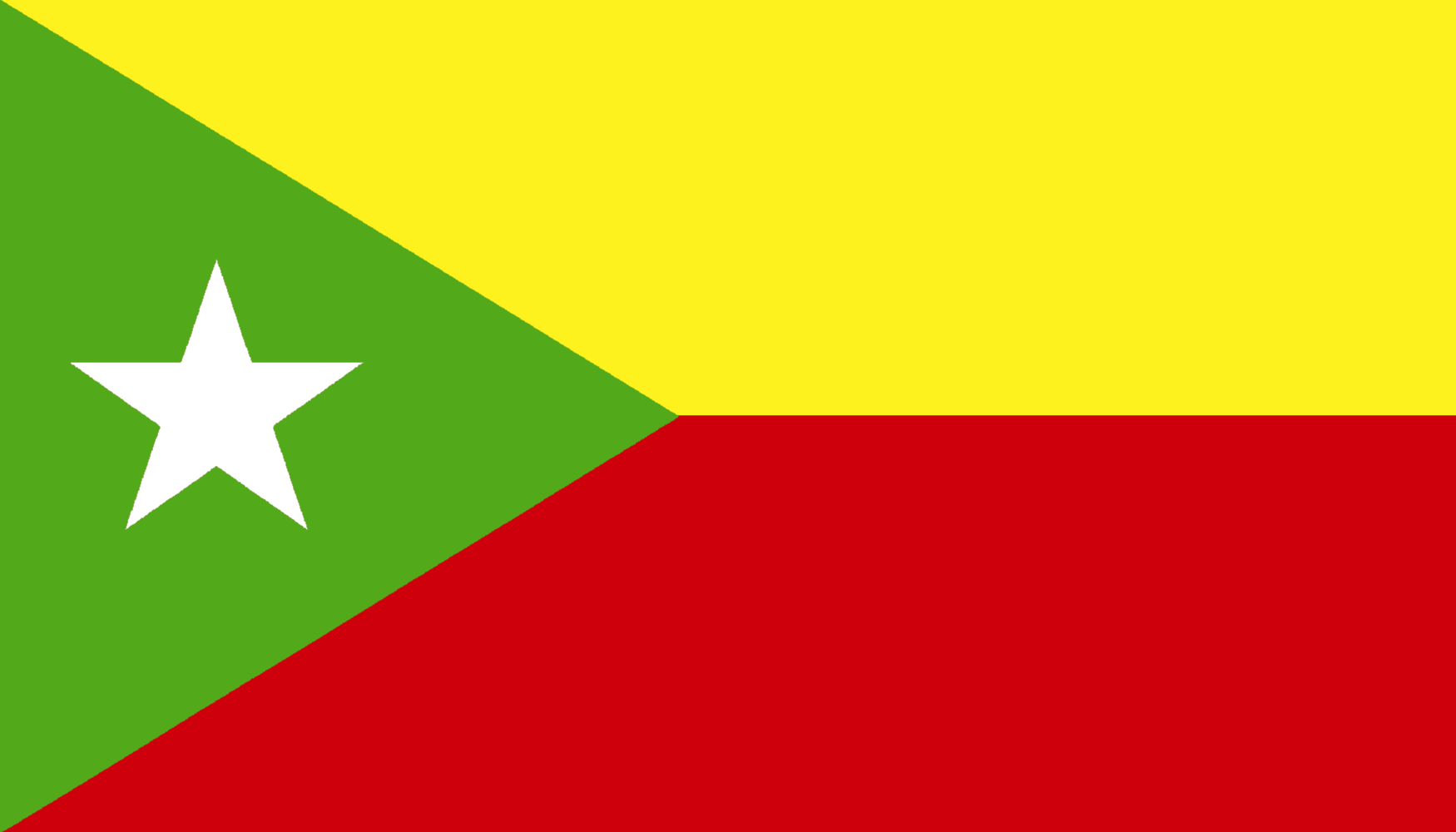 Flag of the Shanni Nationalities Army.